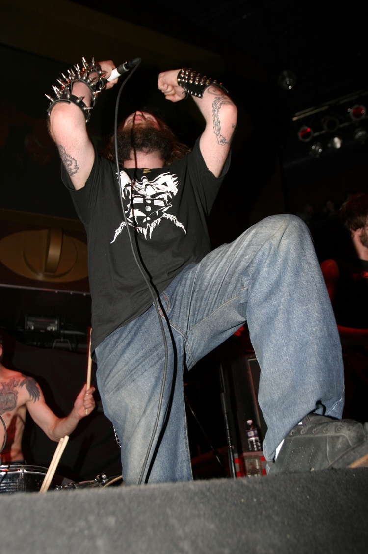 Cam of 3 Inches of Blood Live at Reds, Edmonton